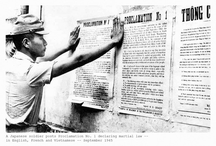 Japanese soldier in Sai Gon, 1945